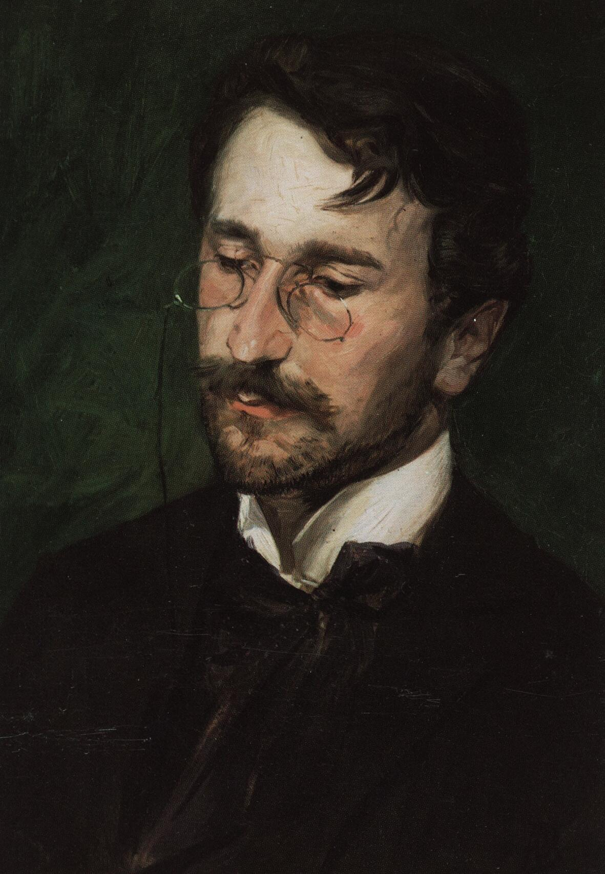 Painting of C.S. Adama van Scheltema (1877-1924) by Anne Marinus Broeckman (1874-1946). Location 2016: Literatuurmuseum, The Hague (the Netherlands).